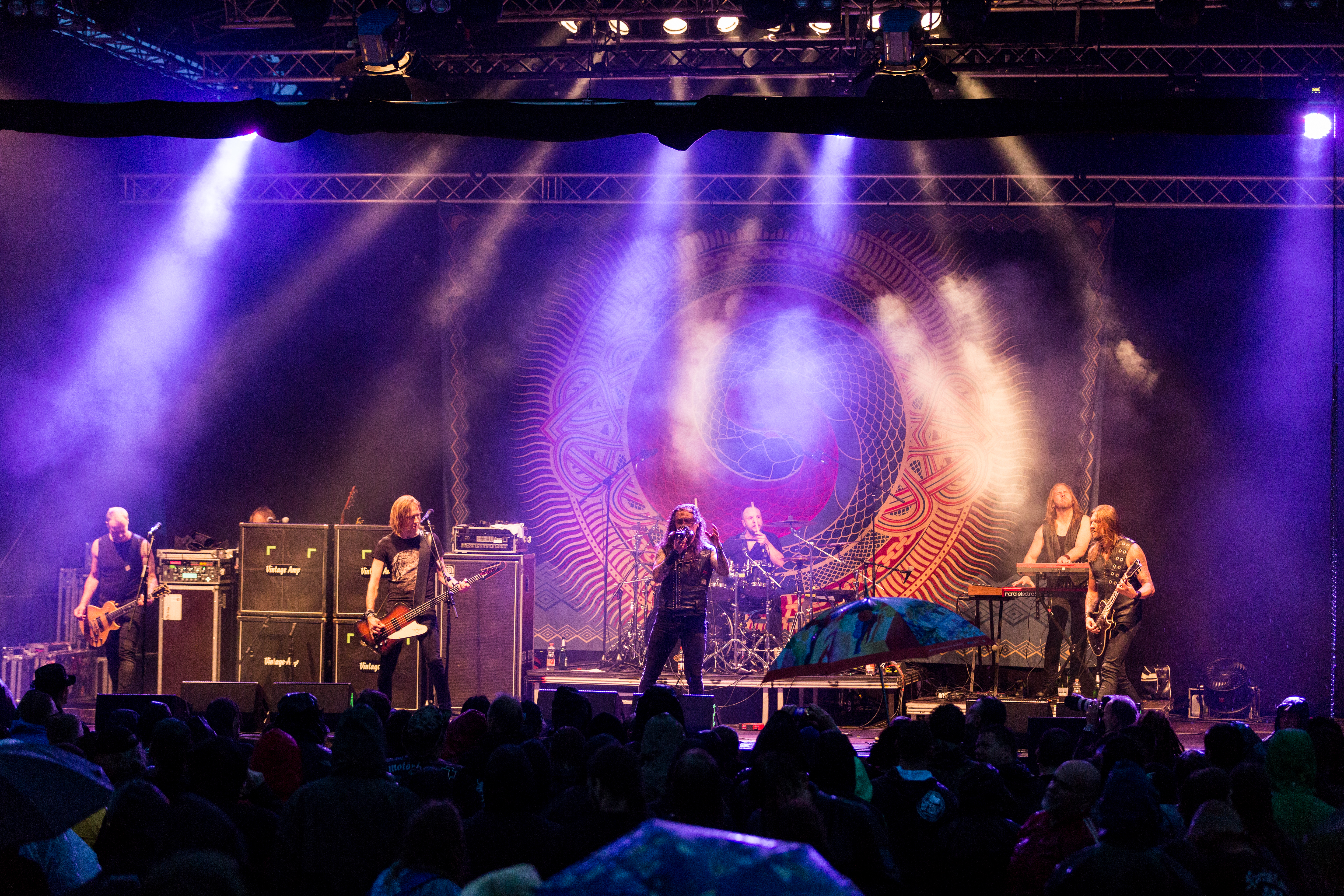 The Finnish metal band Amorphis at the Metal Frenzy 2017 in Gardelegen/Germany.